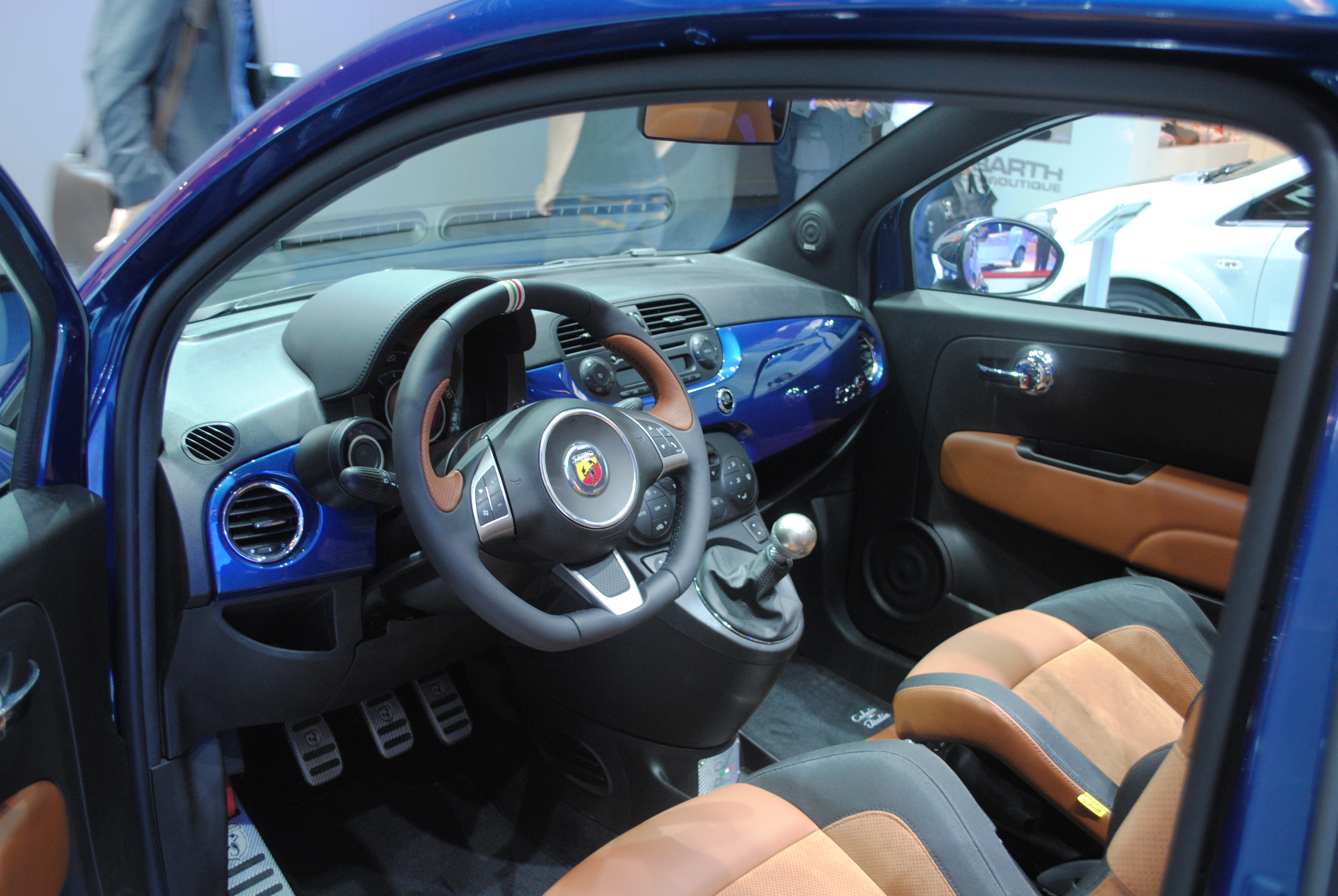 More photos and info